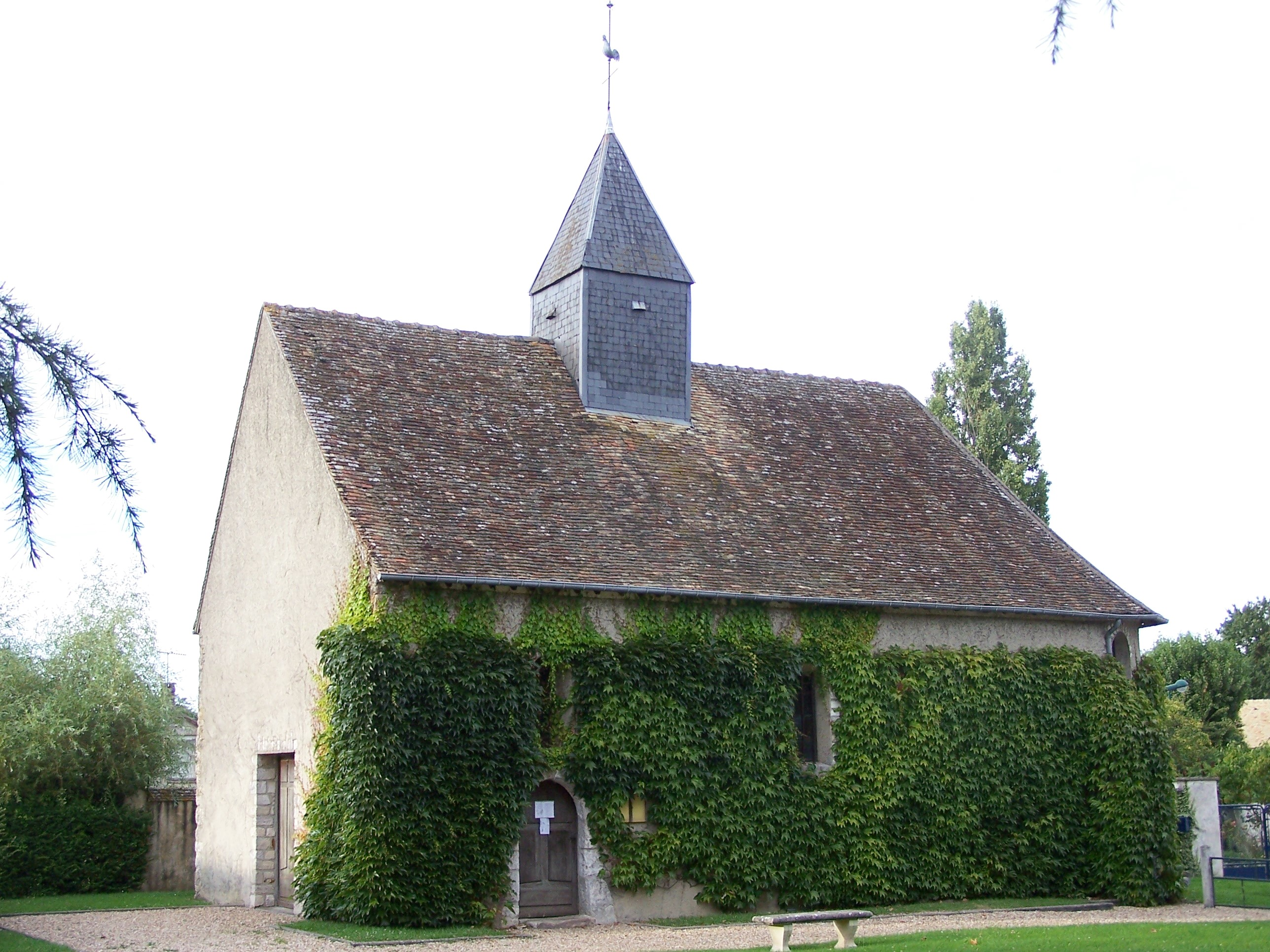 Church of Flins-Neuve-Église (Yvelines, France)